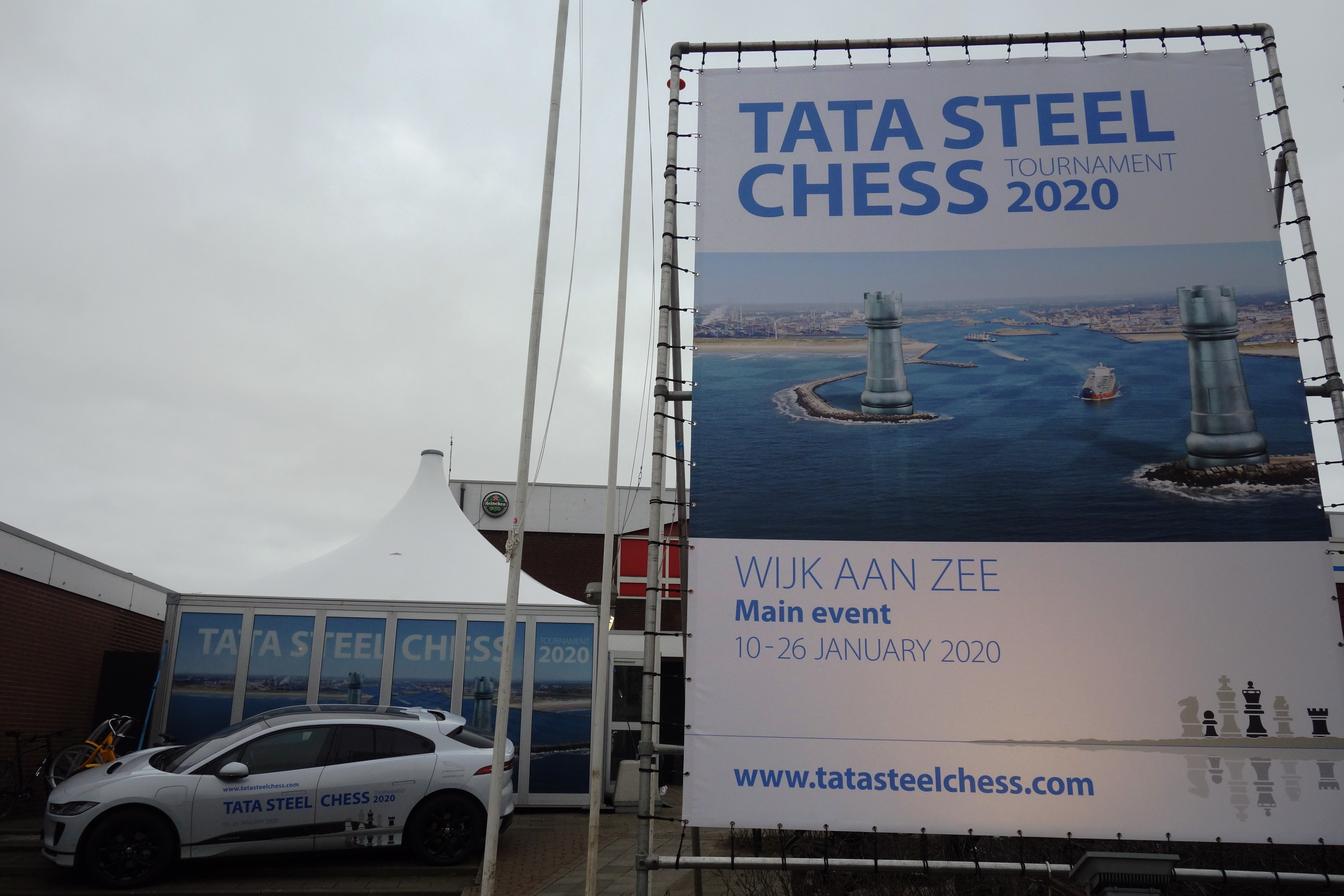 Tata Steel Chess 2020